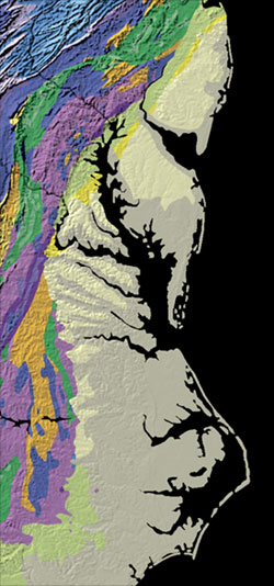 Relief map showing the Fall Line in the Eastern United States